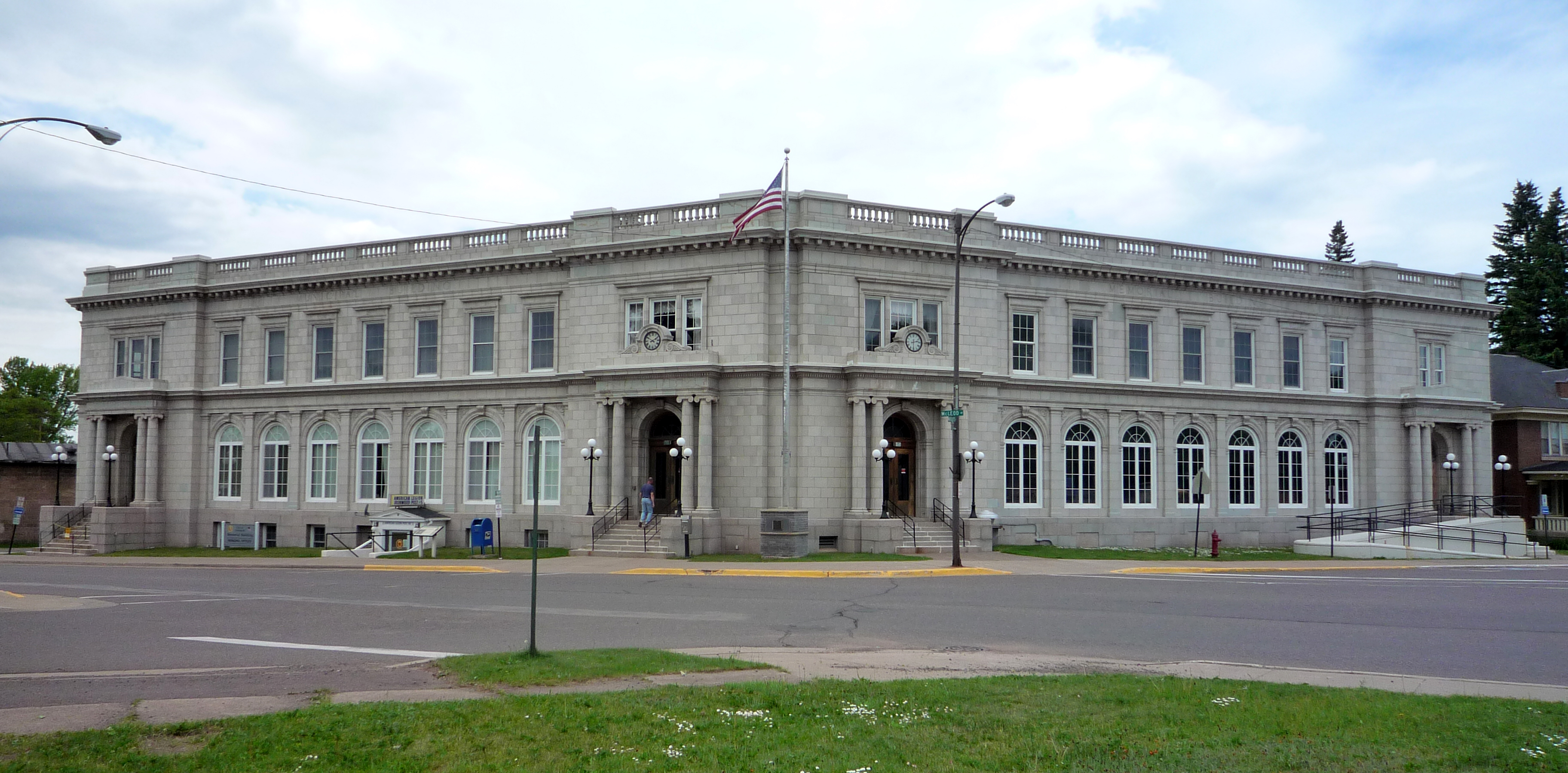 Memorial Building (sometimes called the Ironwood Municipal Building), Ironwood, Michigan, USA.